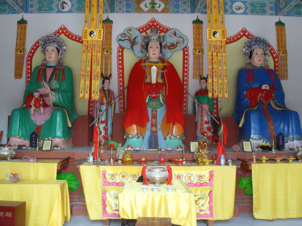 碧霞祠 Shrine of the Blue Dawn (Bixia Goddess) in Shandong.